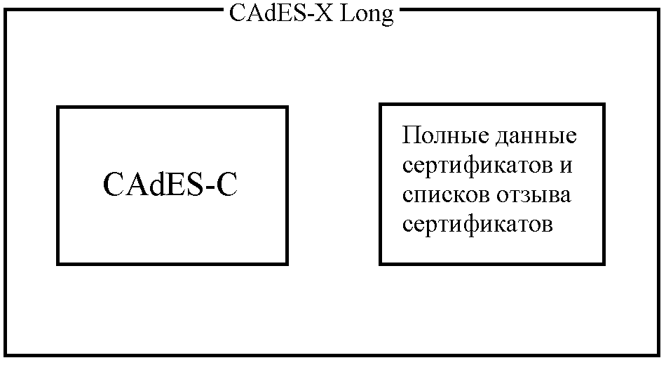 CAdES-X Long illustration